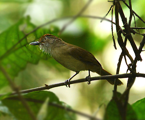 Uncommon endemic. seen this species mingled with blue paradise flycatcher and black-naped monarch. Photo was taken in Puerto Princesa City, Palawan, the Philippines